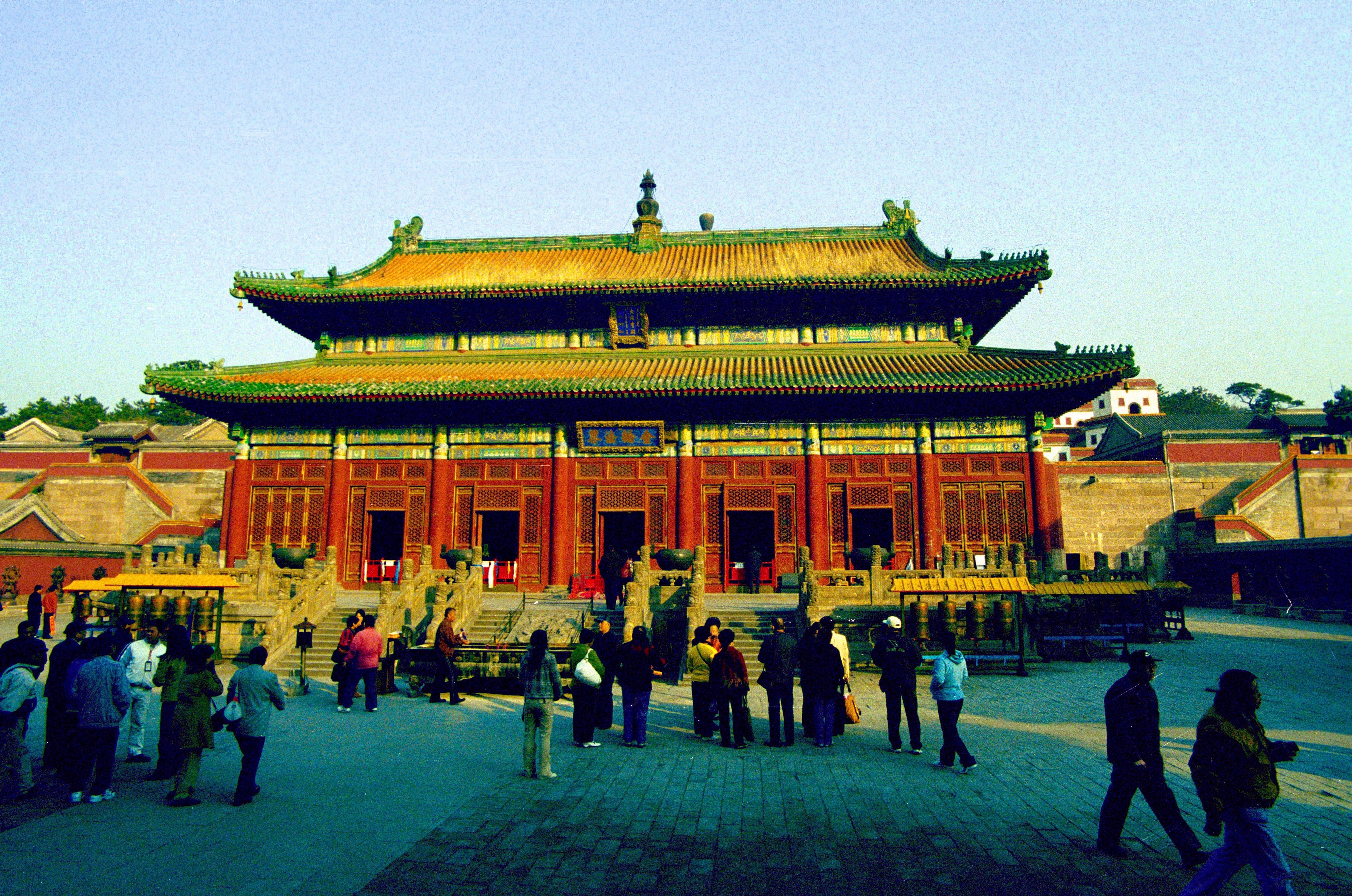 Main hall of Puning temple